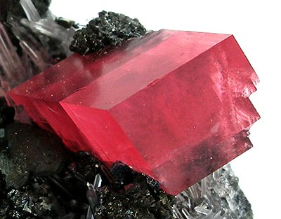 Chalcopyrite, Quartz, Rhodochrosite Locality: Octahedron Pocket, Mini King Raise, Sweet Home Mine, Alma, Colorado Size: miniature, 5.2 x 4.2 x 2.3 cm Rhodochrosite, Quartz, Chalcopyrite An incredible miniature, simply stunning, with crystals so gemmy and transPARENT, they look carved and glued on to the tetrahedrite. The matrix is crystallized tetrahedriteof jet black color an dlustre, not the usual gray or dull style. A few clear quartzes by accent, and you have a simply stunning, top calibre miniature that would fit in any competitive case. There is simply nothing wrong with the piece...it is textbook pristine and aesthetic. Out of all the hundreds of rhodos he selected from in his day (Helmut was the rhodo agent contracted to be selling to Europe for most of the 1990s!) , this was the one Helmut kept. There are bigger, but not many finer. Rhodos of this quality do go for an admitted "arm and a leg." They must. There are just so few of them to go around.